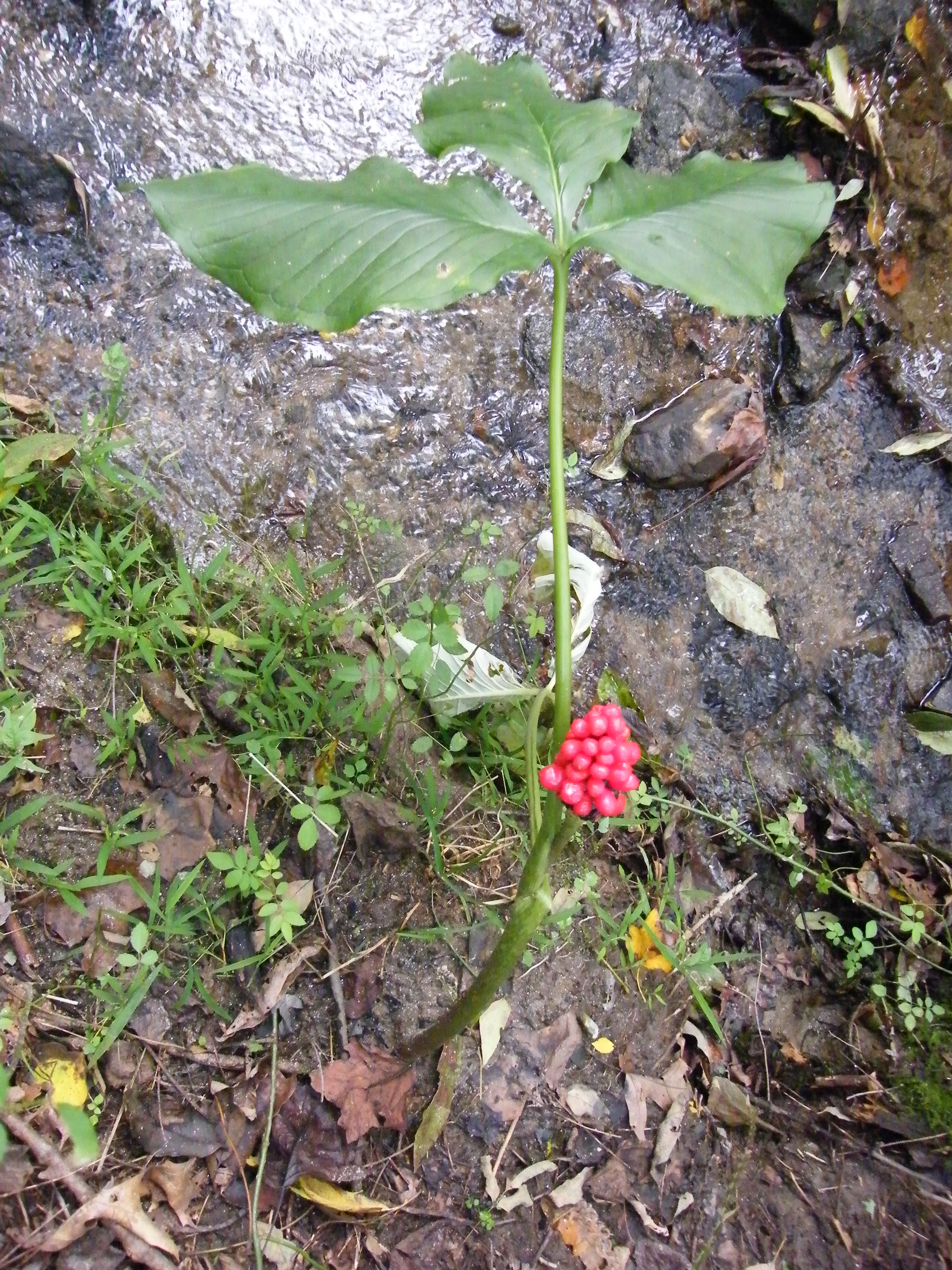 Summer jack in the pulpit showing fruit, Pennsylvania